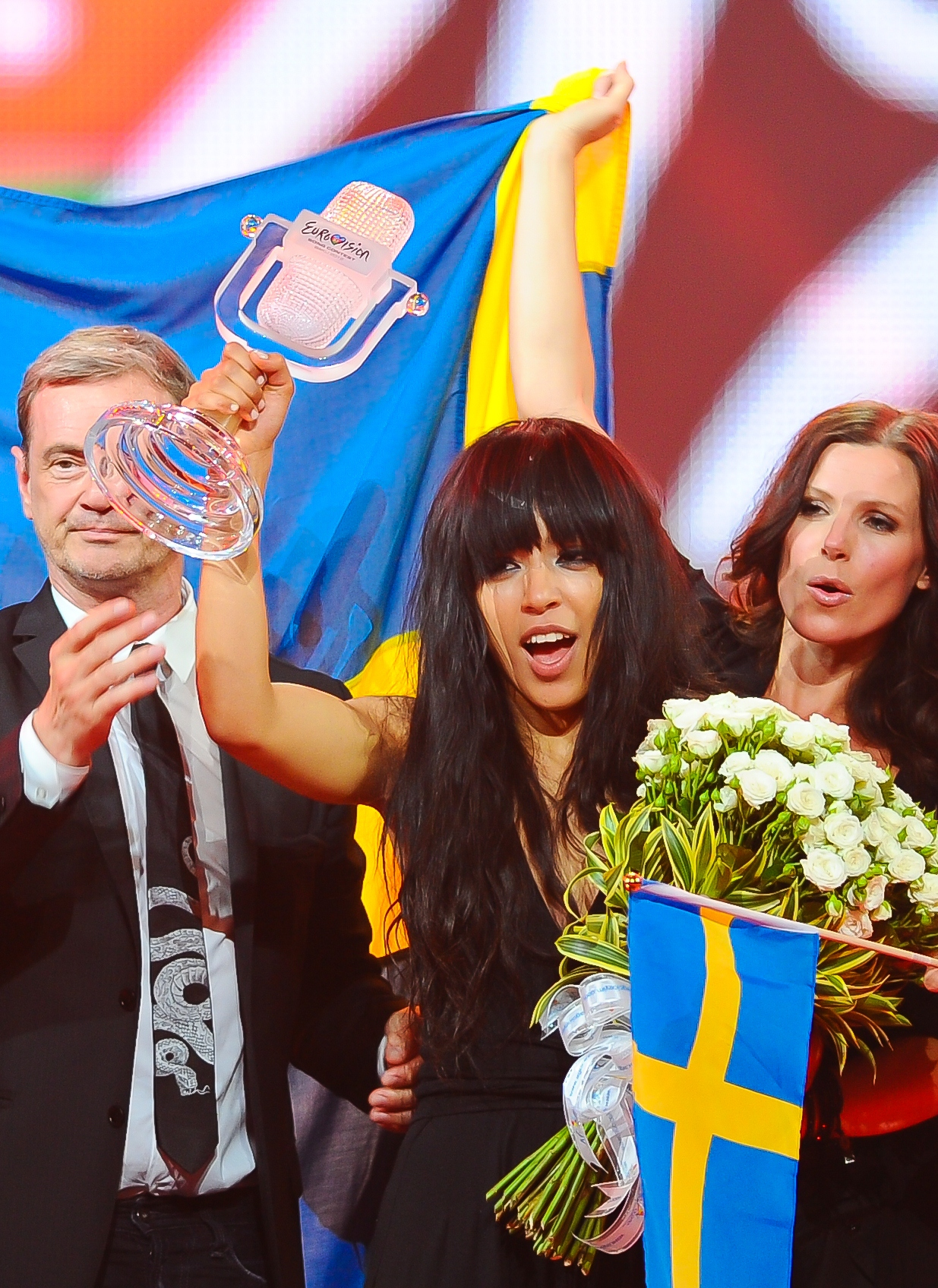 Loreen, winner of Eurovision 2012 (Baku, Azerbaijan)